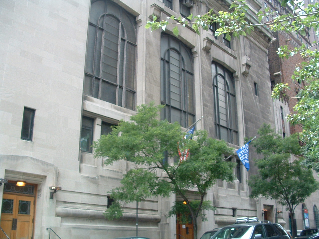 2 West 64th Street, New York, NY (Ethical Culture Meeting House)